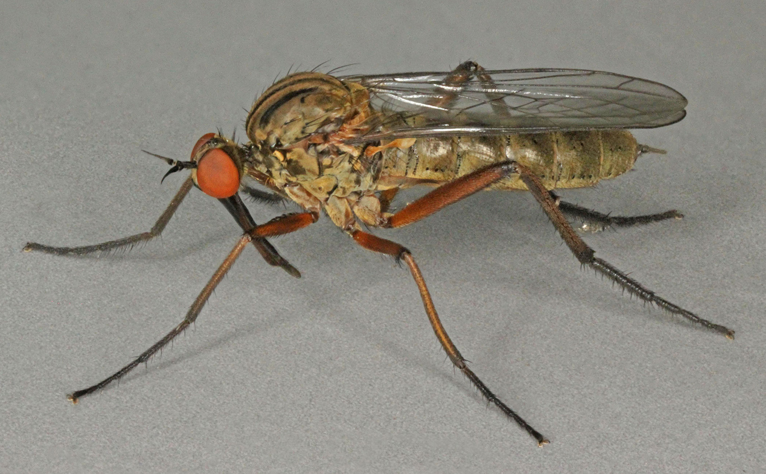 Empis livida female, Alyn Waters, North Wales, July 2012